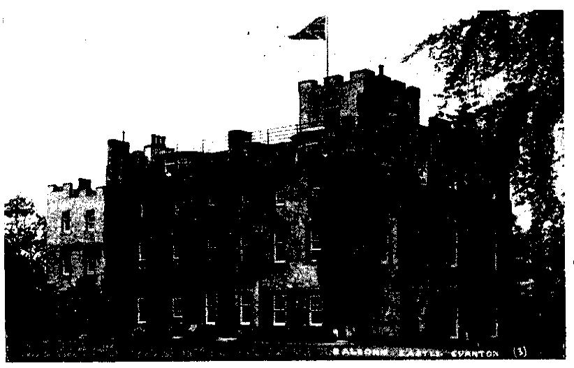 Old family photograph of Balconie Castle before it was demolished.